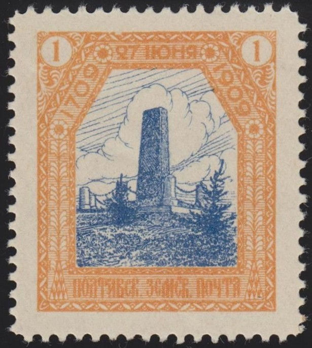 Poltava rural stamp, 1909, 1k.